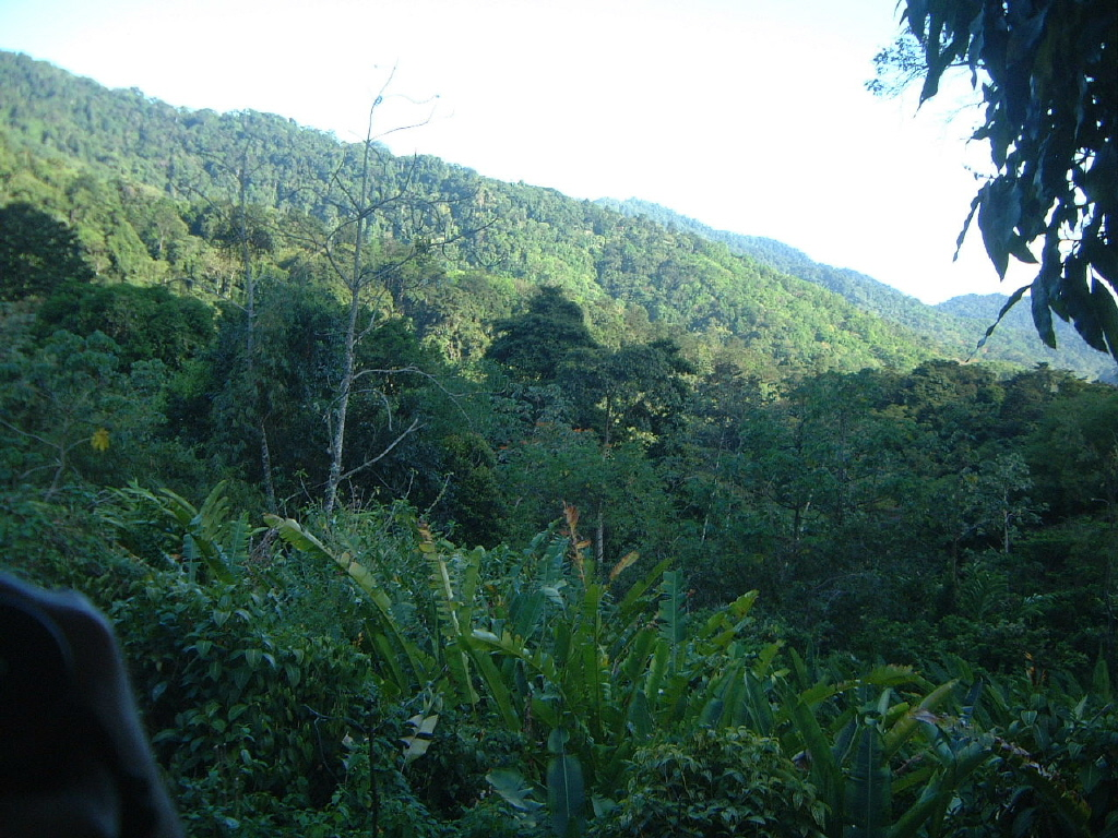 Trinidad and Tobago Northern range from the Asa Wright Nature Centre, my photo